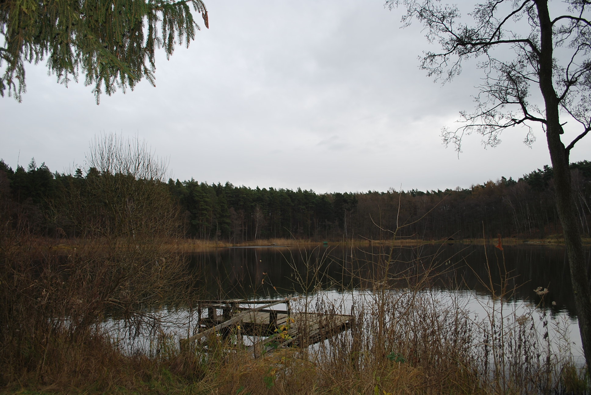 Głęboczek Lake in Grobia (Greater Poland)